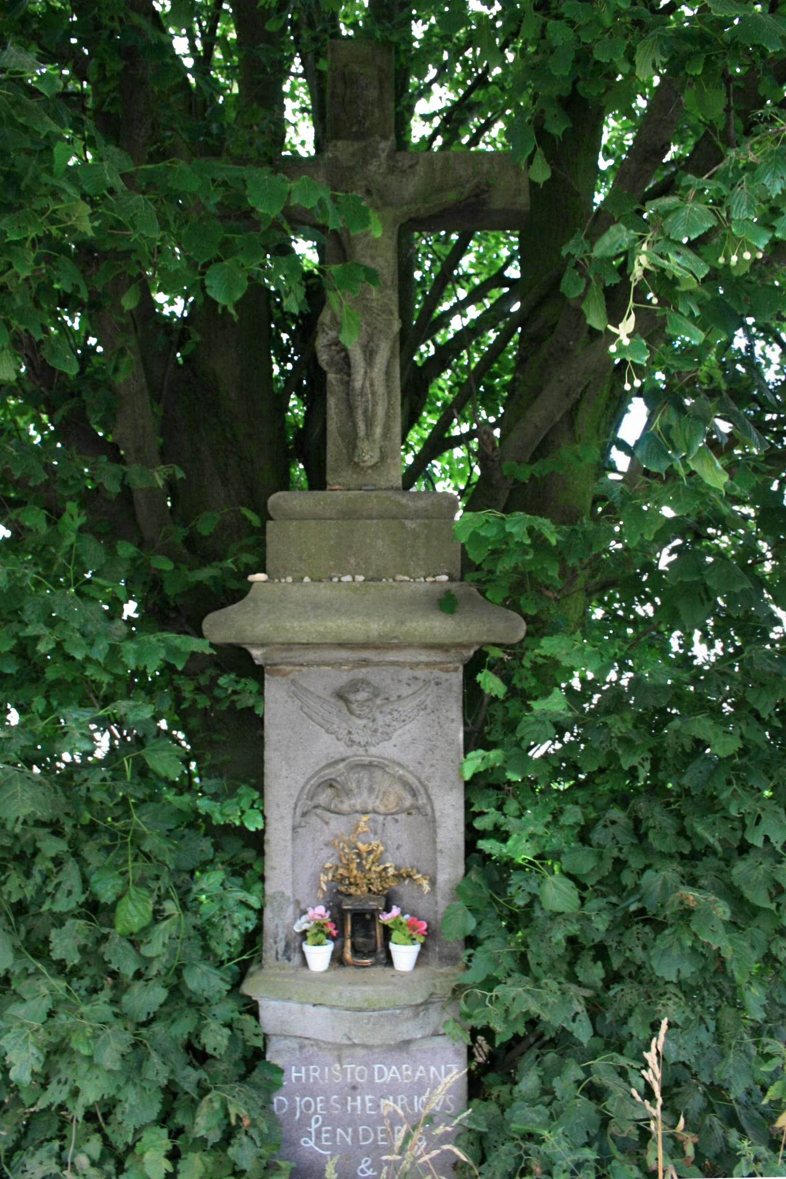 Cultural heritage monument No. D 013 in Mönchengladbach